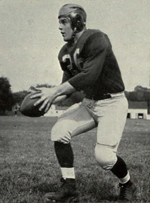 Photograph of Jim Maddock This work is in the public domain because it was published in the United States between 1923 and 1963 and although there may or may not have been a copyright notice, the copyright was not renewed. Unless its author has been dead for the required period, it is copyrighted in the countries or areas that do not apply the rule of the shorter term for US works, such as Canada (50 pma), Mainland China (50 pma, not Hong Kong or Macao), Germany (70 pma), Mexico (100 pma), Switzerland (70 pma), and other countries with individual treaties. See Commons:Hirtle chart for further explanation. This work is in the public domain because it was published in the United States between 1923 and 1977 and without a copyright notice. Unless its author has been dead for several years, it is copyrighted in jurisdictions that do not apply the rule of the shorter term for US works, such as Canada (50 p.m.a.), Mainland China (50 p.m.a., not Hong Kong or Macao), Germany (70 p.m.a.), Mexico (100 p.m.a.), Switzerland (70 p.m.a.), and other countries with individual treaties. See this page for further explanation.